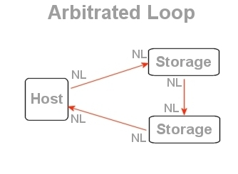 Simple diagram of Fibre Channel Arbitrated Loop in a Private Loop Mode.